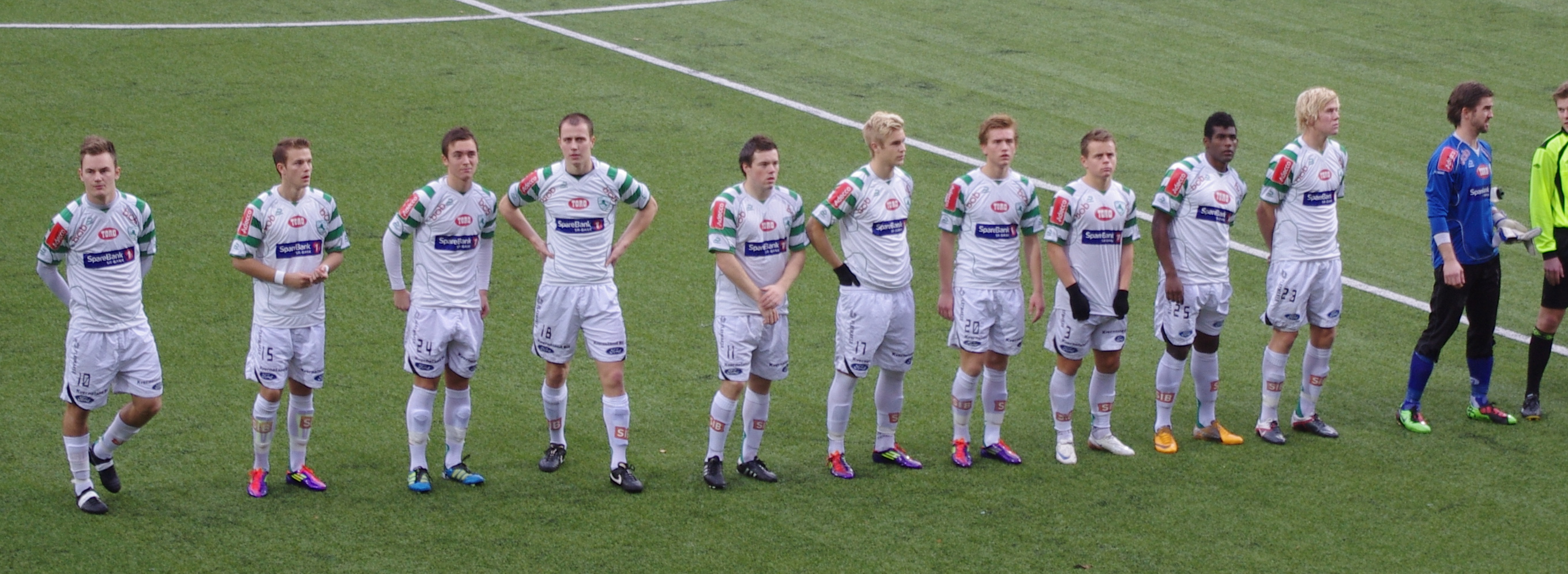 Løv-Hams line-up before the clubs last game ever, against Hønefoss.